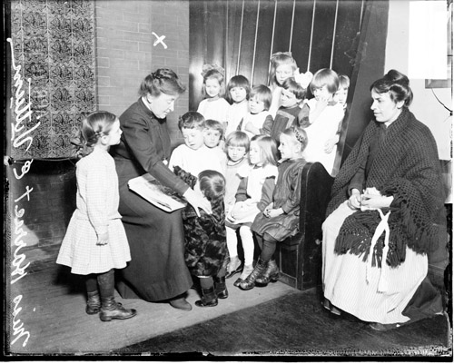 Harriet E. Vittum holding book, Northwestern University settlement house children gathered around. Credit: Chicago Daily News negatives collection, DN-0003451. Courtesy of the Chicago Historical Society.